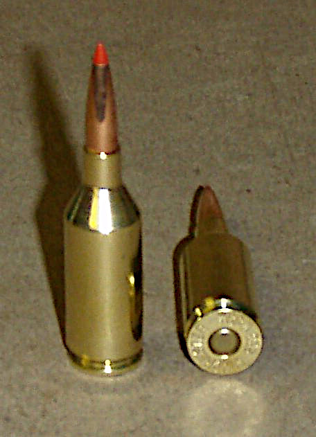 Ammunition .223 WSSM Winchester Super Short Magnum with 75 grain Hornady AMax bullet